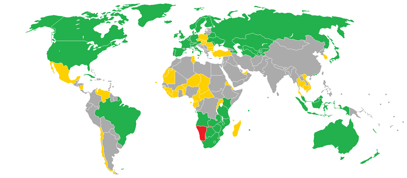 Visa policy of Namibia Namibia Visa-free travelTiếng Việt: Chính sách thị thực Namibia Namibia Miễn thị thực